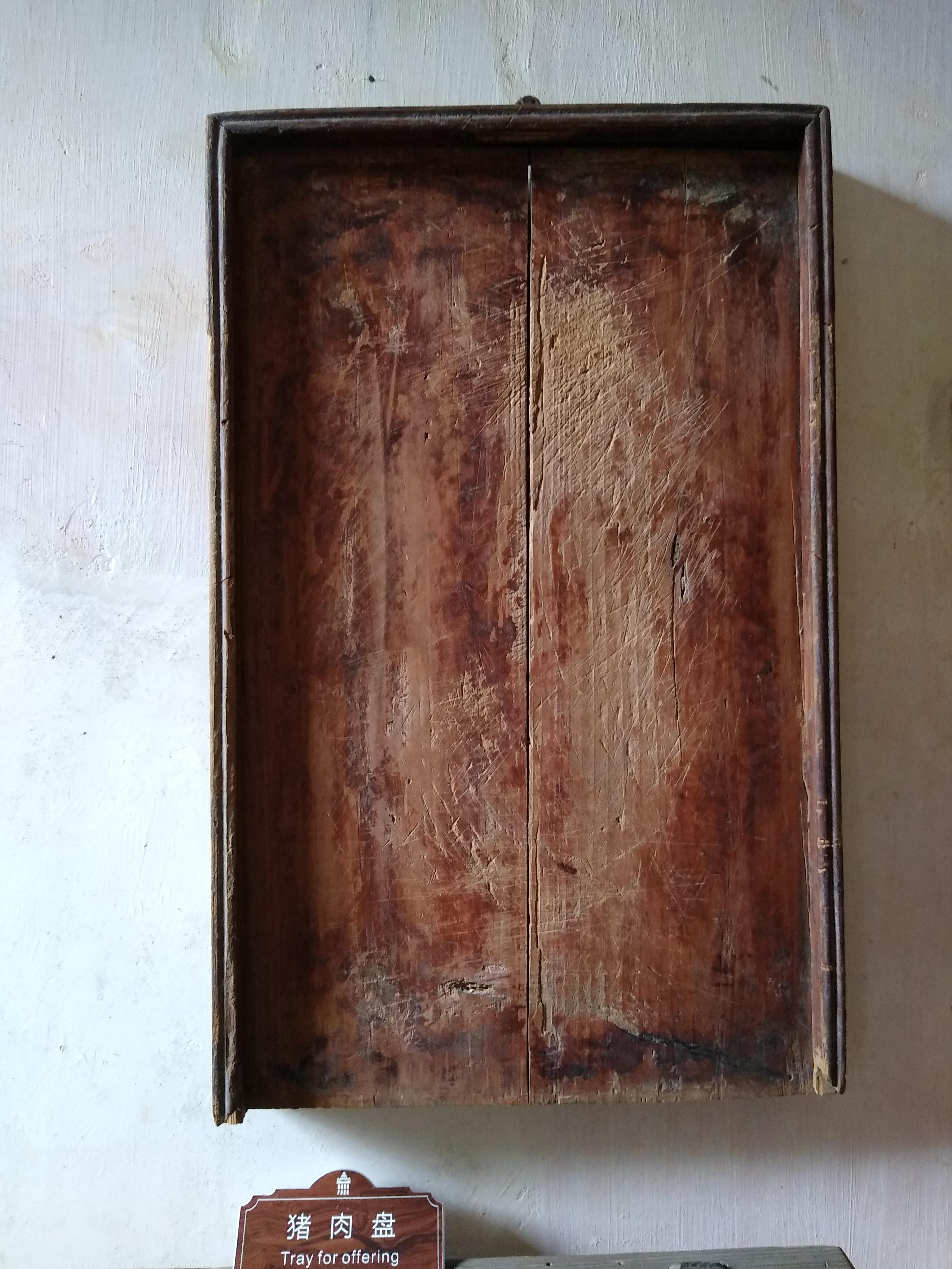 Tray for offering sacrifices (猪肉盘, "Pork tray") on display in Majianglong (马降龙), Kaiping.